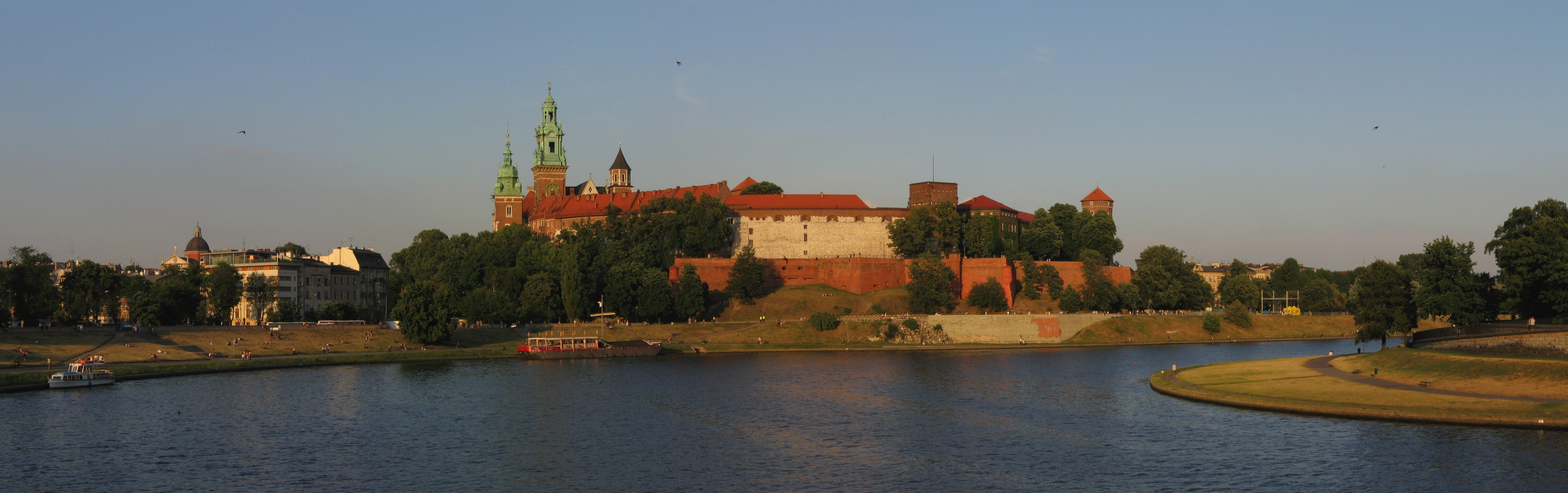 Wawel in Kraków in slanting light. Stitch with hugin and enblend created from five original photos.